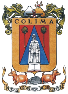 Colima Coat of Arms